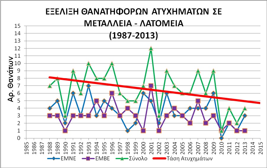 Fatal accidents in mining sector (GREECE)